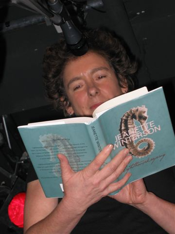 Jeanette Winterson (b. 1959), British writer